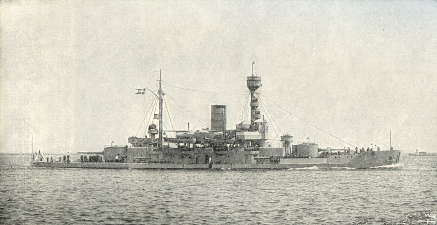 Danish coastal defence ship Peder Skram, launched in 1908